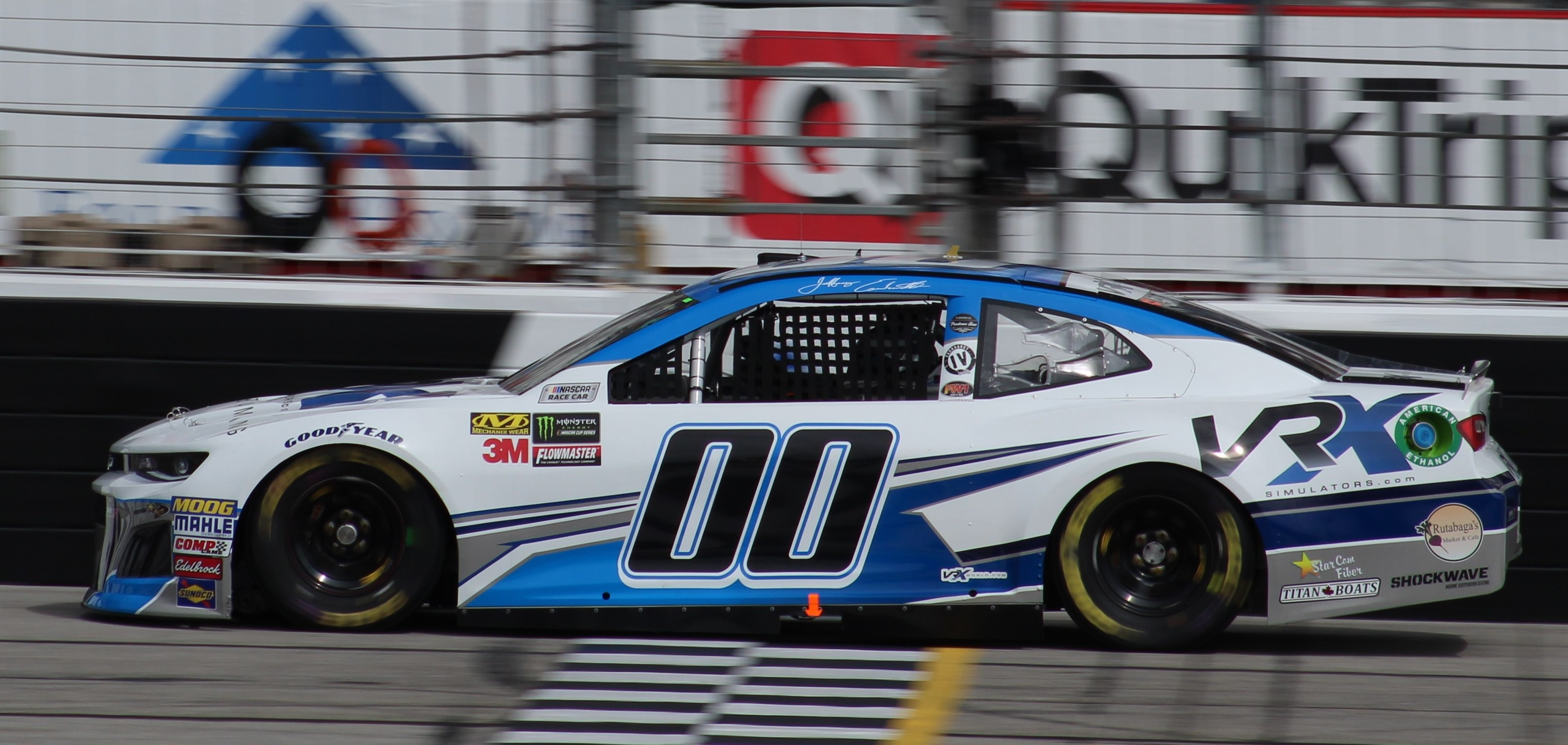 Jeffrey Earnhardt's No. 00 VRX Simulators Chevrolet at Atlanta Motor Speedway in 2018